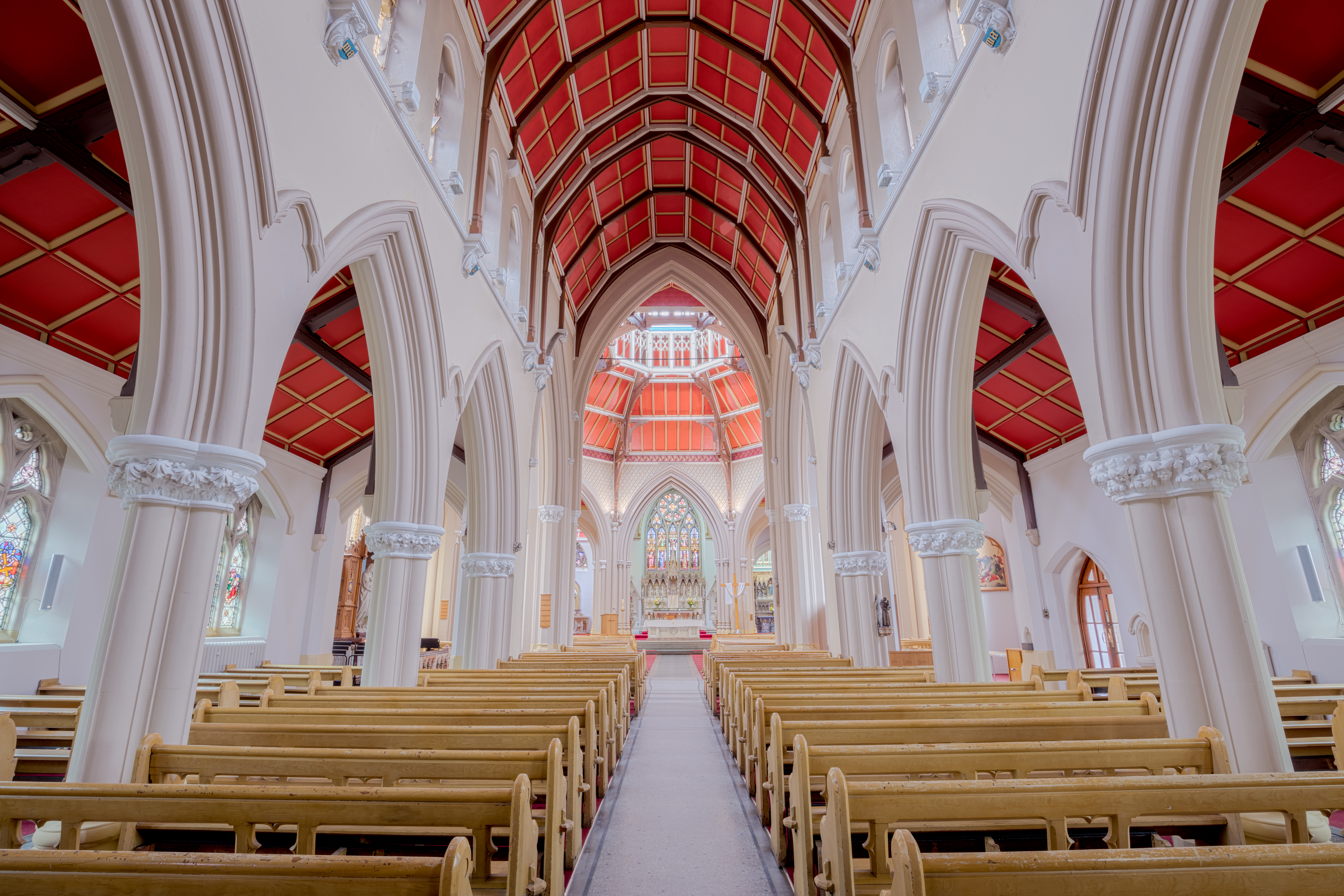 Here is a photograph taken from Sacred Heart Church. Located in Blackpool, Lancashire, England.